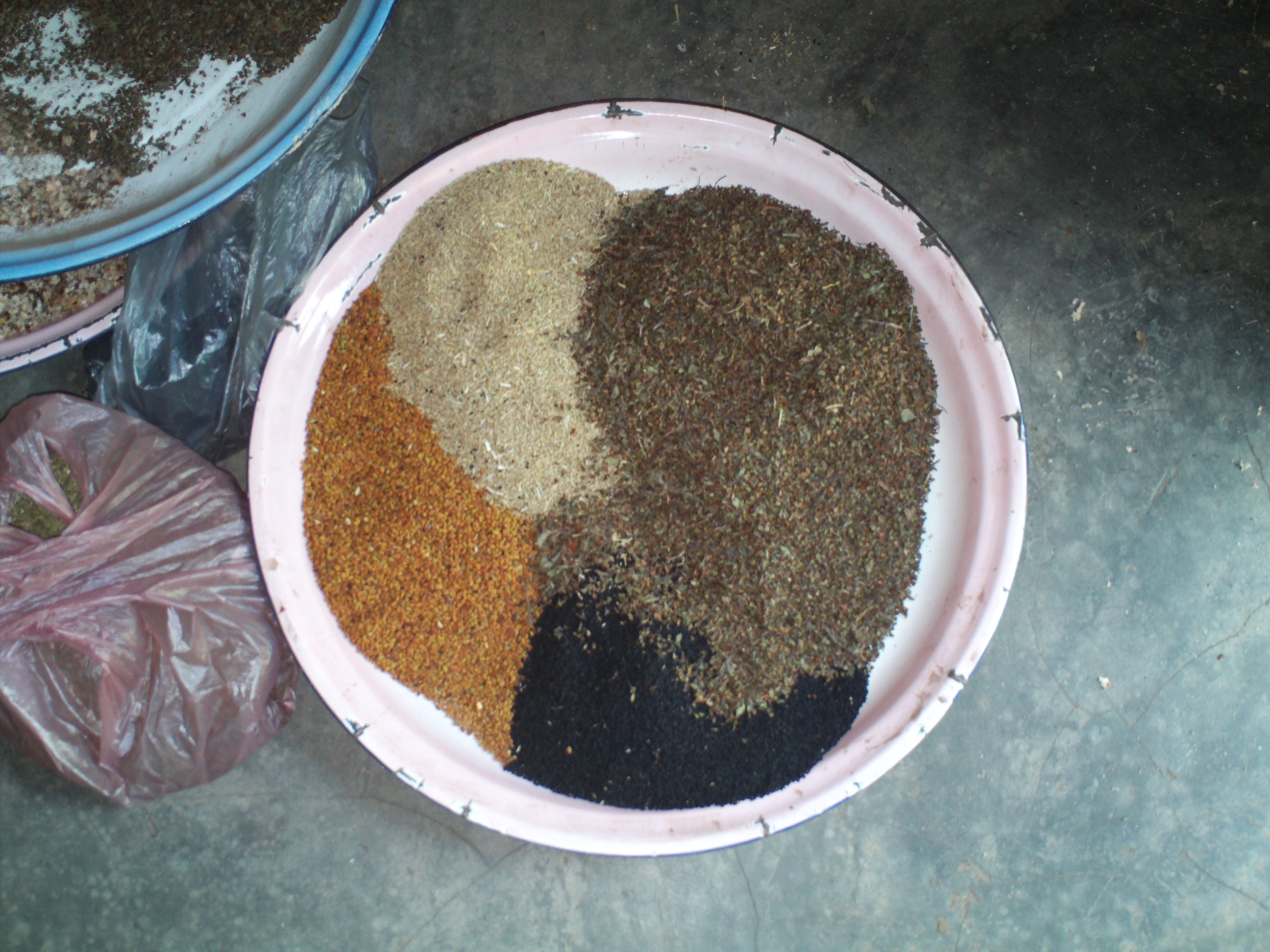 Spices in preparation for making berbere. Clockwise from top left: nej asmud ("white pepper;" ajwain or possibly radhuni), korarima, tikur asmud ("black pepper;" nigella), and abesh (or abish; fenugreek). These and tchew (ጨው; salt) are added to dried and ground red pepper to make berbere. (Transliterations are approximate.)